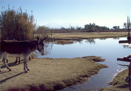 An artifical pond in a recreational farm in the locality of Perdriel (902 m altitude), Mendoza province, where the snail vector species Galba neotropica, syn. Lymnaea neotropica, was collected and cattle, goats, horses, donkeys and llamas proved to be infected